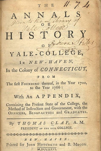 "The Annals or History of Yale College in New Haven, in the Colony of Connecticut," frontispiece, written by Thomas Clap, President of Yale College. Notation on frontispiece carries inscription: "Given to the Library of Yale College by Ezra Stiles 1785. Image courtesy of the Yale University Manuscripts & Archives Digital Images Database. Retouched by MarmadukePercy.